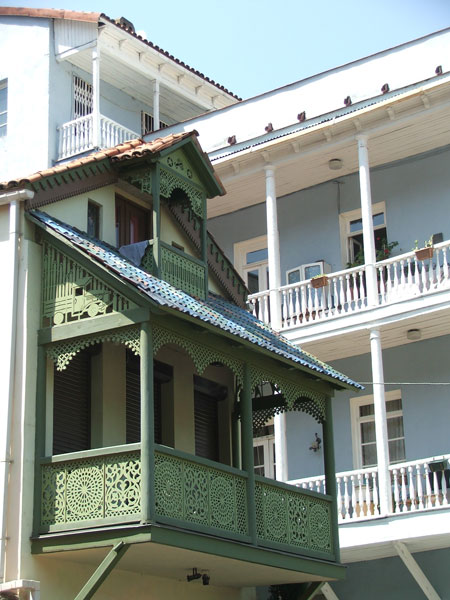 old town